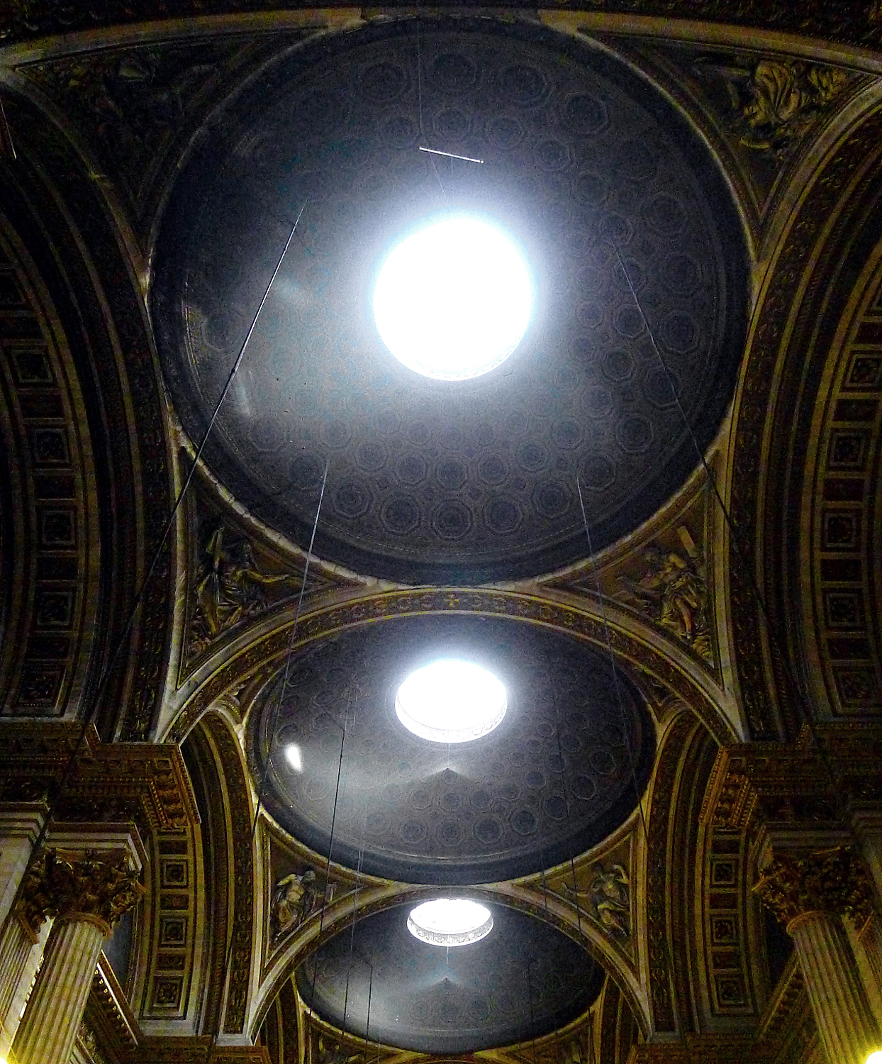 Madeleine church - Paris